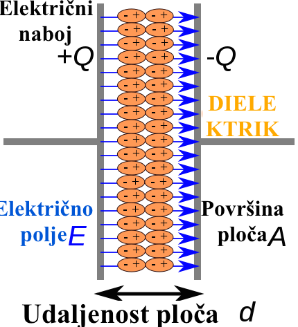 Schematic of a parallel plate capacitor with a dielectric spacer. Two plates with area A {\displaystyle A} are separated by a distance d {\displaystyle d} . When a charge ± Q {\displaystyle \pm {}Q} is moved between the plates, an electric field E {\displaystyle E} exists in the region between the plates. The dielectric material becomes polarised due to the charge displacement, reducing the total internal field, and increasing the capacitance.